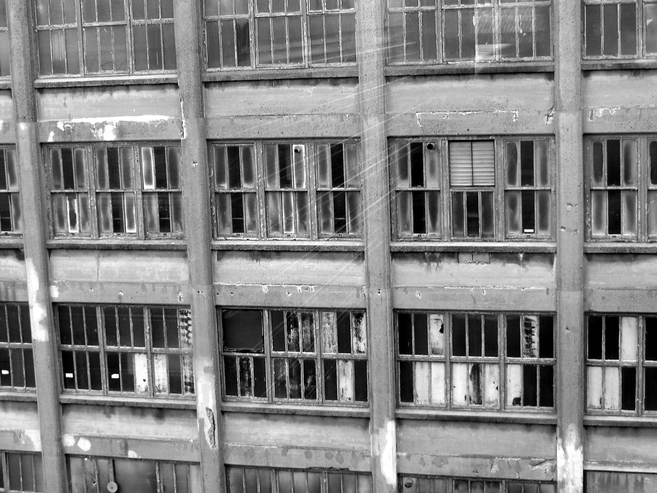 The Thomas Edison Storage Battery Company Building in West Orange, New Jersey.